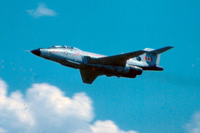 McDonnell CF-101B "Voodoo", s/n 101057, in flight during an airshow.